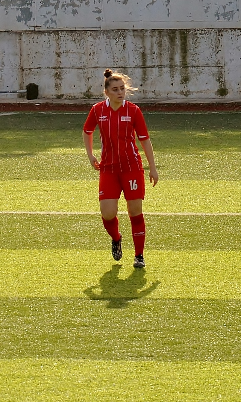 Nagihan Avanaş playing for Ataşehir Belediyespor in the 2014-15 season